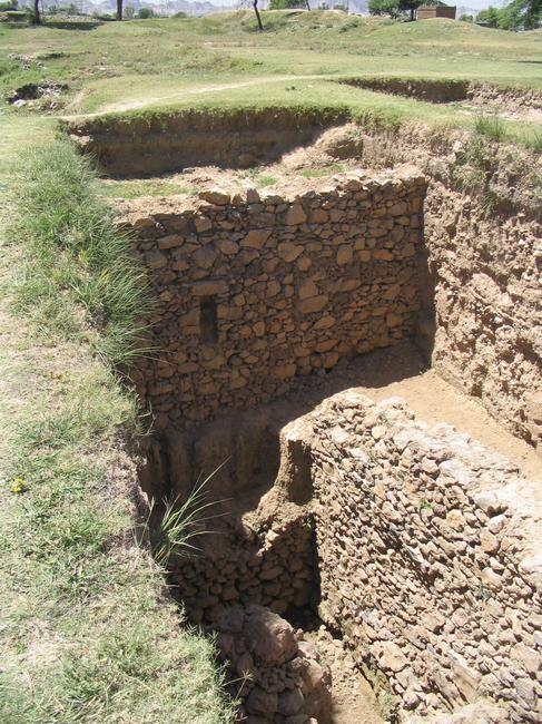 Bhir Mound, excavation (2)